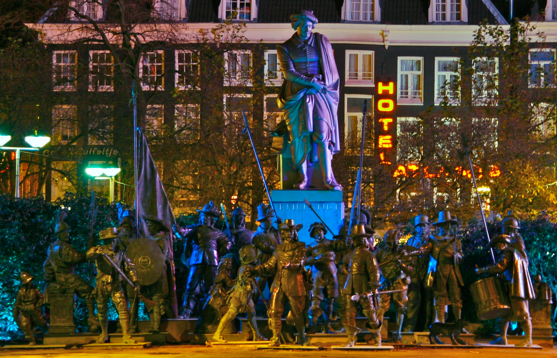 Rembrandtplein at night. "The Night Watch"